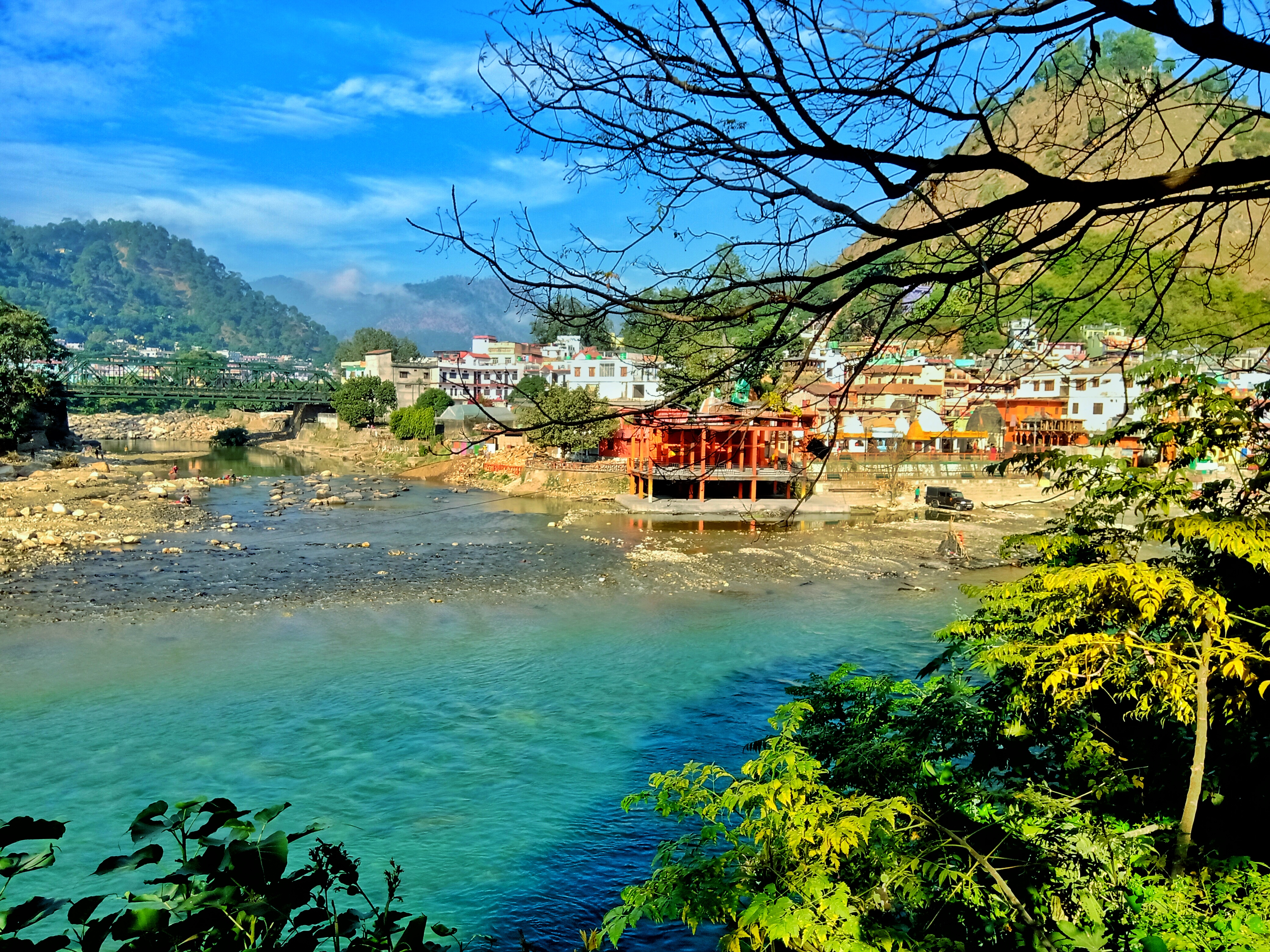 Saryu Bagad, Bageshwar